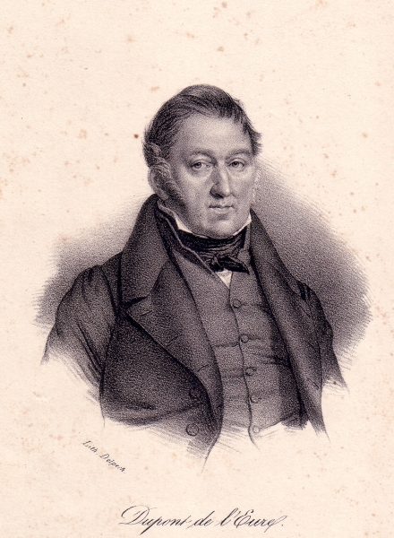 Jacques-Charles Dupont de L'Eure, Prime Minister of France's Second Republic.